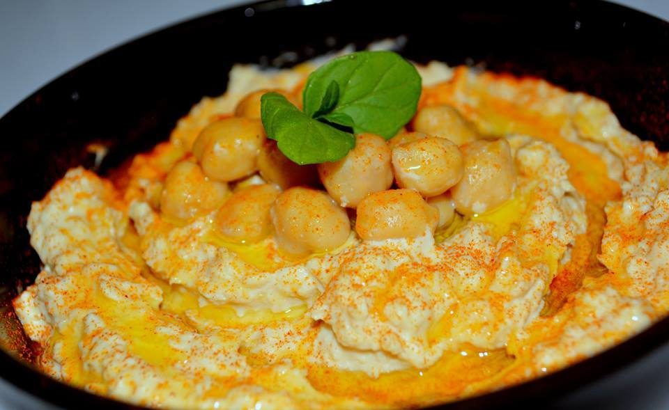 hummus is an arabic dish basically made by grinding chickpea,tahini and few spices.its famous for its creamy,rich and unique taste.